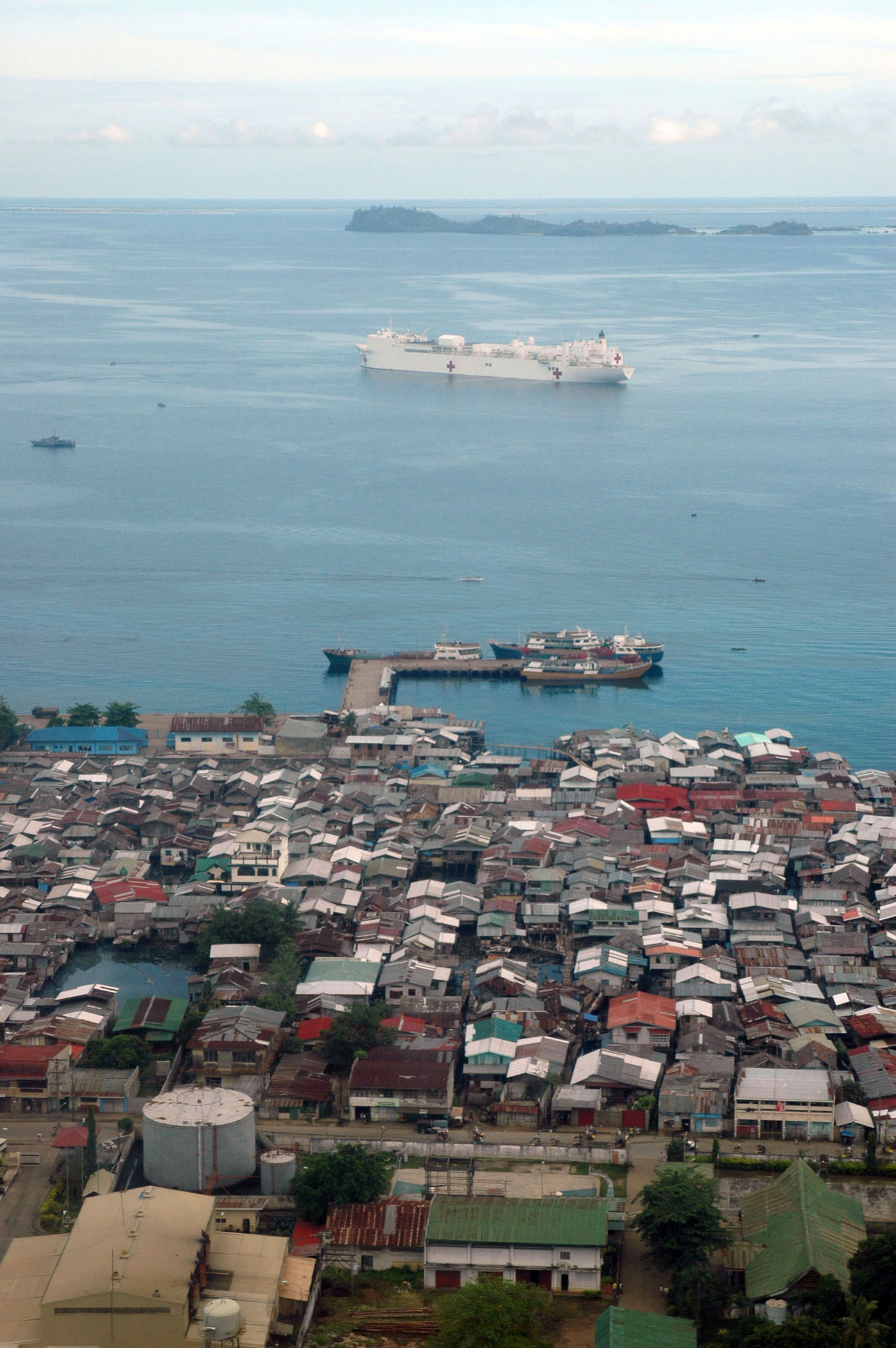 Jolo, Philippines (June 8, 2006) – The U.S. Military Sealift Command (MSC) Hospital ship USNS Mercy (T-AH 19) anchors off the city coast during a scheduled humanitarian visit. Mercy is on a five-month deployment to South Asia, Southeast Asia, and the Pacific Islands. The medical crew aboard Mercy will provide general and ophthalmology surgery, basic medical evaluation and treatment, preventive medicine treatment, dental screenings and treatment, optometry screenings, eyewear distribution, public health training and veterinary services as requested by the host nations. Like all U.S. Naval forces, Mercy is able to rapidly respond to a range of situations on short notice. Mercy is uniquely capable of supporting medical and humanitarian assistance needs and is configured with special medical equipment and a robust multi-specialized medical team who can provide a range of services ashore as well as aboard the ship. The medical staff is augmented with an assistance crew, many of whom are part of nongovernmental organizations that have significant medical capabilities. U.S. Navy photo by Photographer's Mate 3rd Class Timothy F. Sosa (RELEASED)